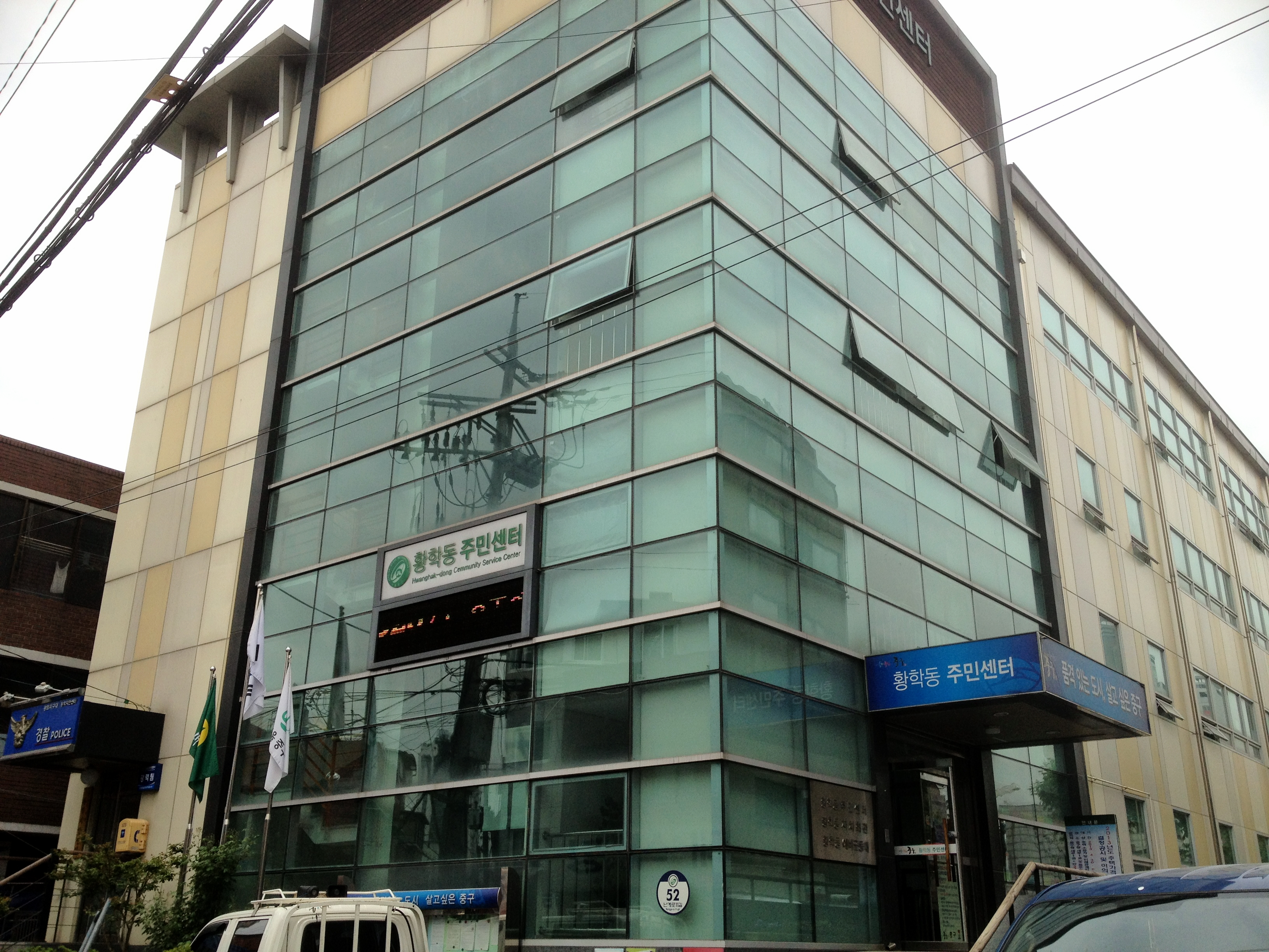 Hwanghak-dong Comunity Service Center(Jung-gu)